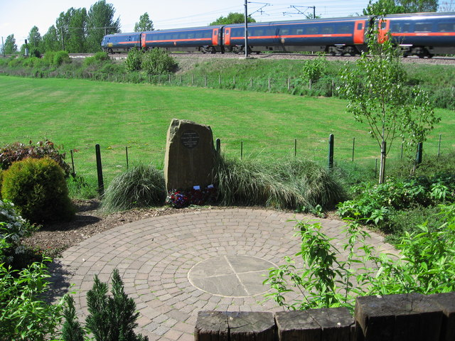 Memorial garden, Great Heck A memorial to the Great Heck rail disaster, 2001. A driver fell asleep at the wheel of his vehicle, which fell from the M62 onto the main east coast railway line and derailed an oncoming train.